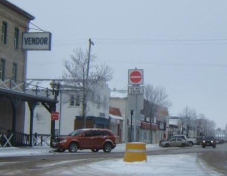 Manitoba Avenue in Selkirk, Manitoba, Canada. Picture taken February, 2012.